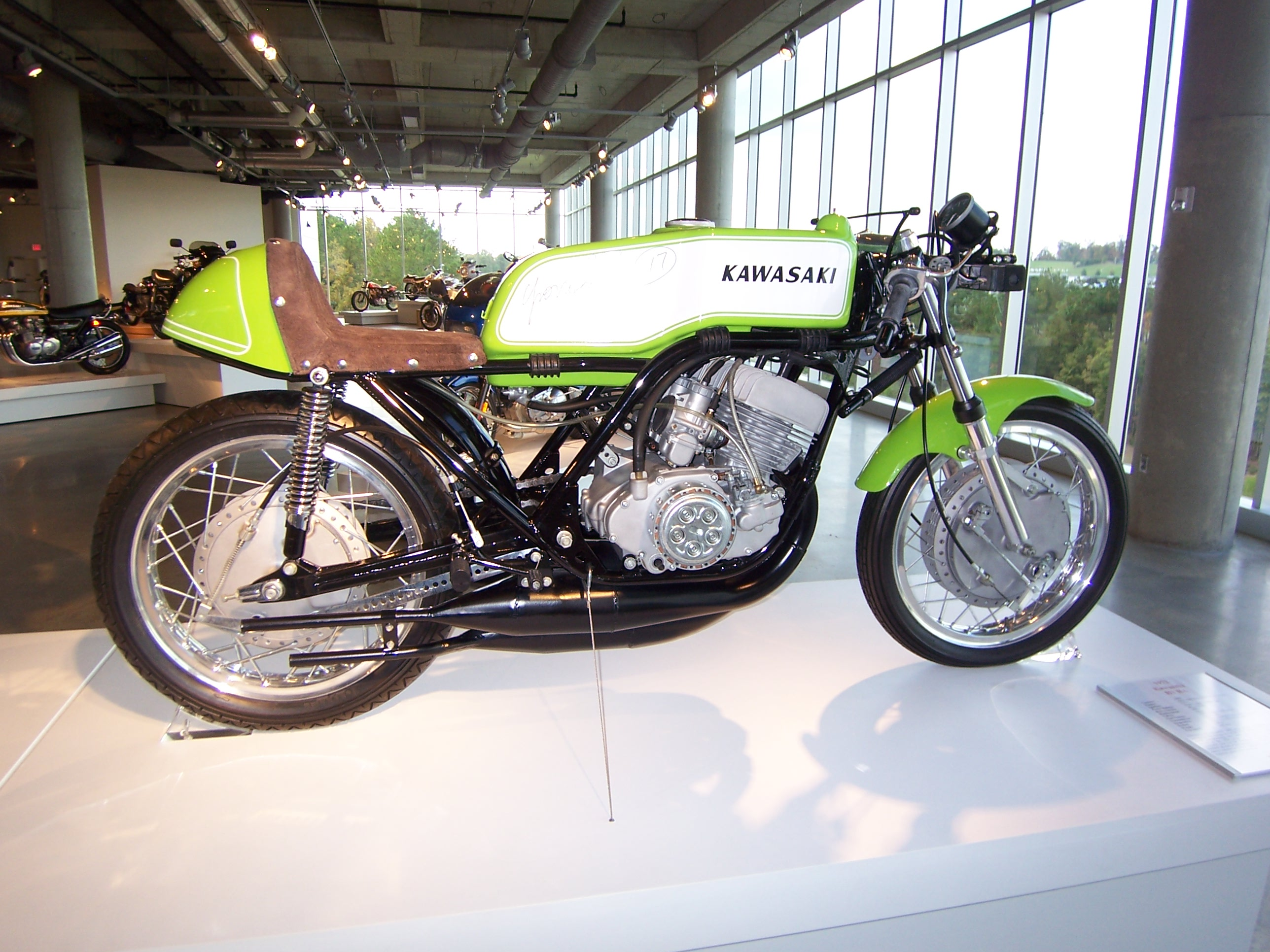 Barber Motorcycle Museum - Oct 22 2006 (613) 1972 Kawasaki H1RA. More Description is here